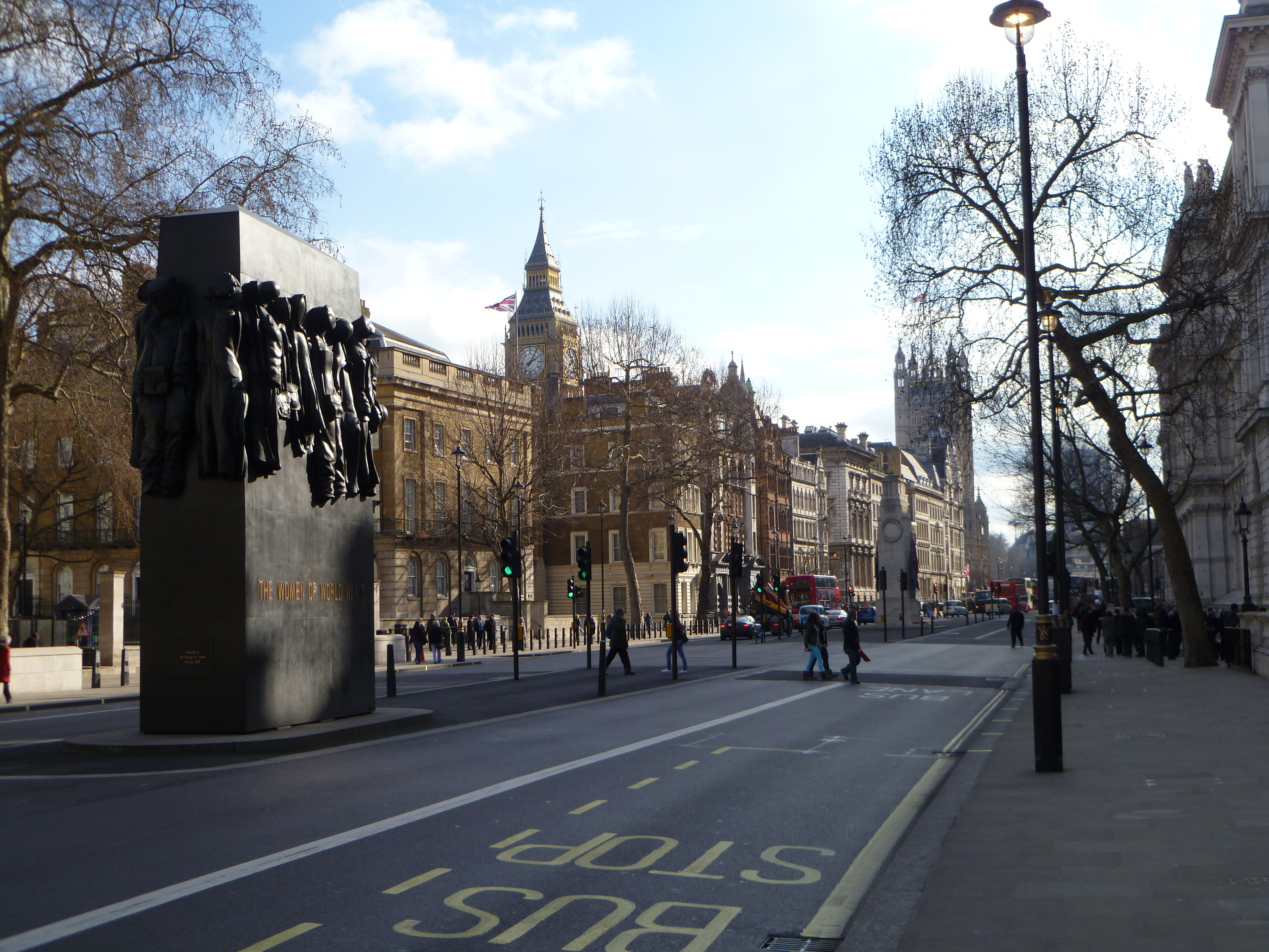 Whitehall, in central London, pictured on a sunny February day. Image features the Monument to the Women of World War II and The Cenotaph, with Big Ben in the background